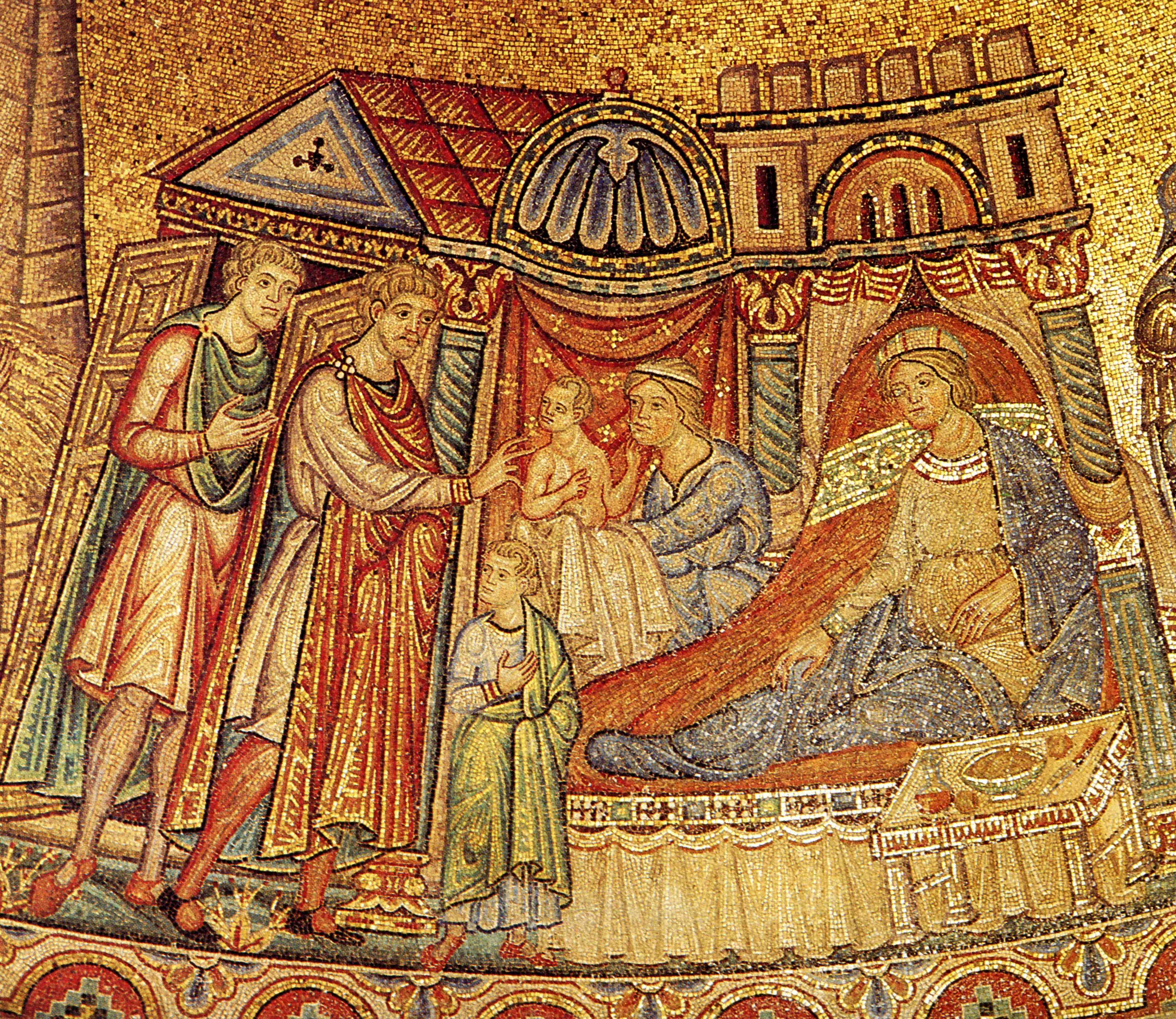 Joseph and Asenath (Mosaic in Basilica di San Marco)